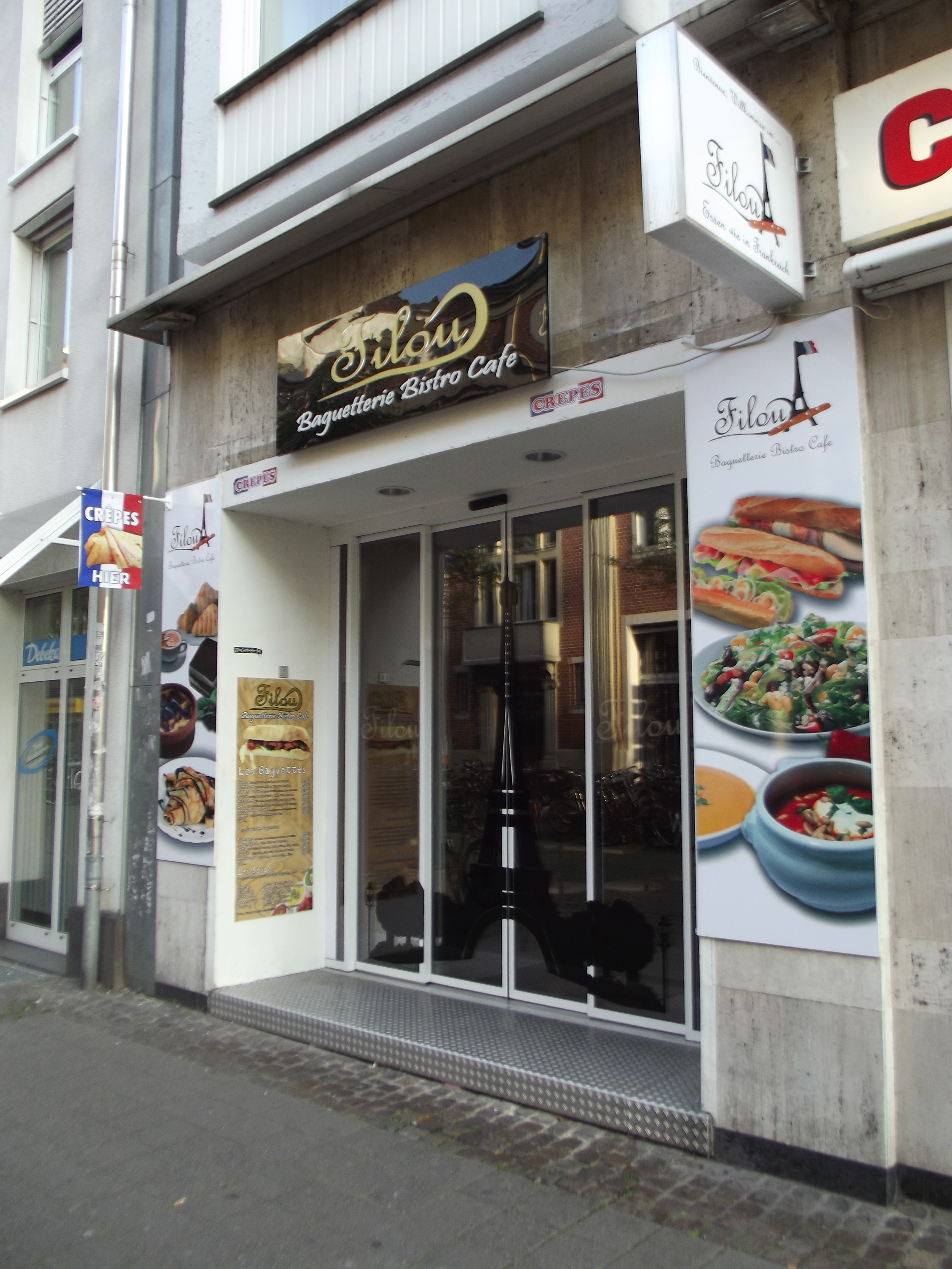 A French-styled bistro in Germany (Münster, Westphalia)